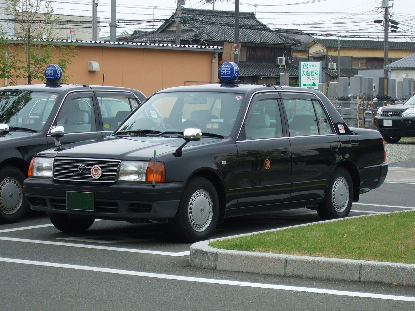 Daiichi Kotsu taxi Location:in Kurume City, Fukuoka, Japan